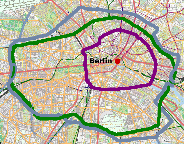 The Inner Ring Road (violet) inside the inner city of Berlin that is bounded approximately by the city ring expressway (blue) and the circle line (green). The Red City Hall is marked with a red dot.